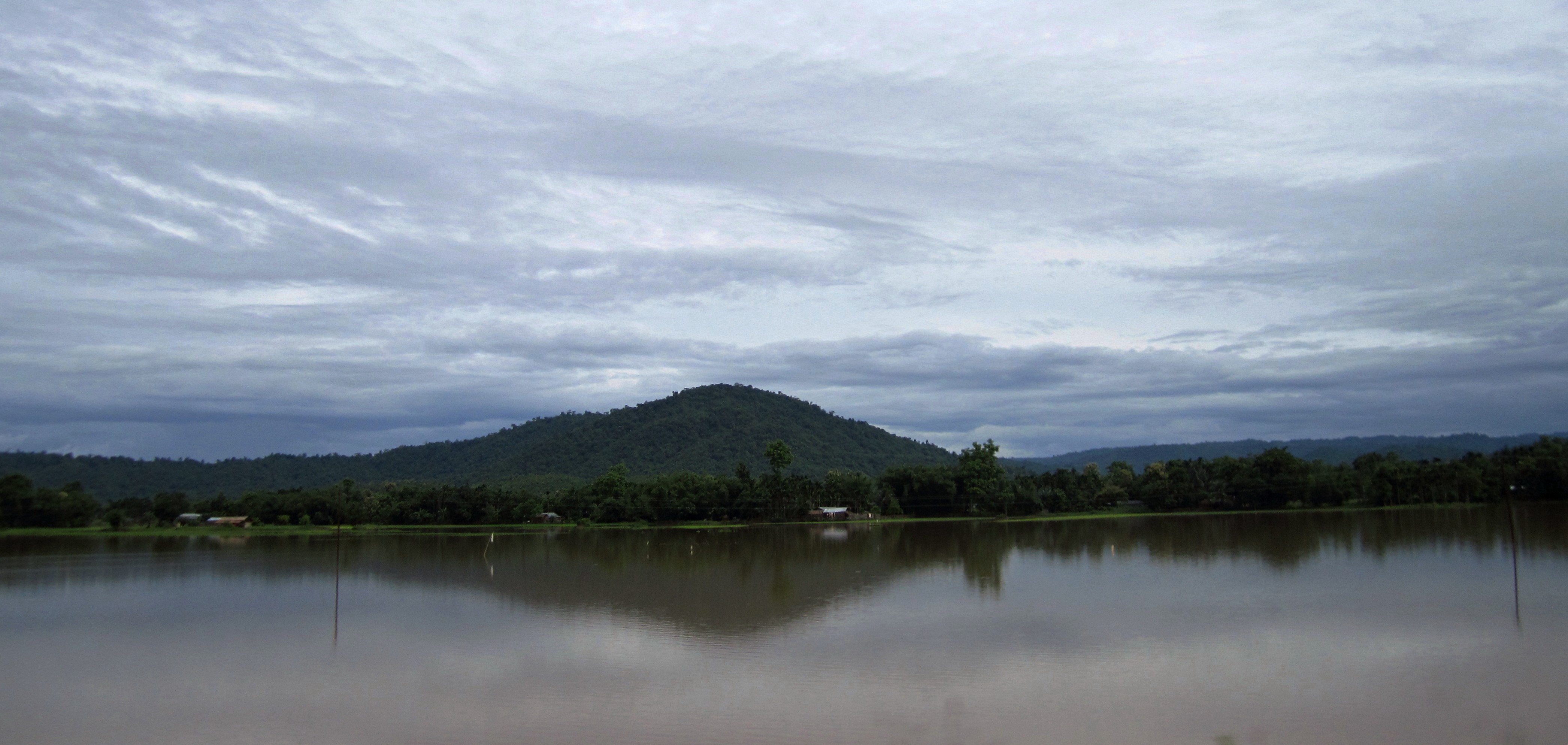 vivid natural scenerio with contrasting tribal culture